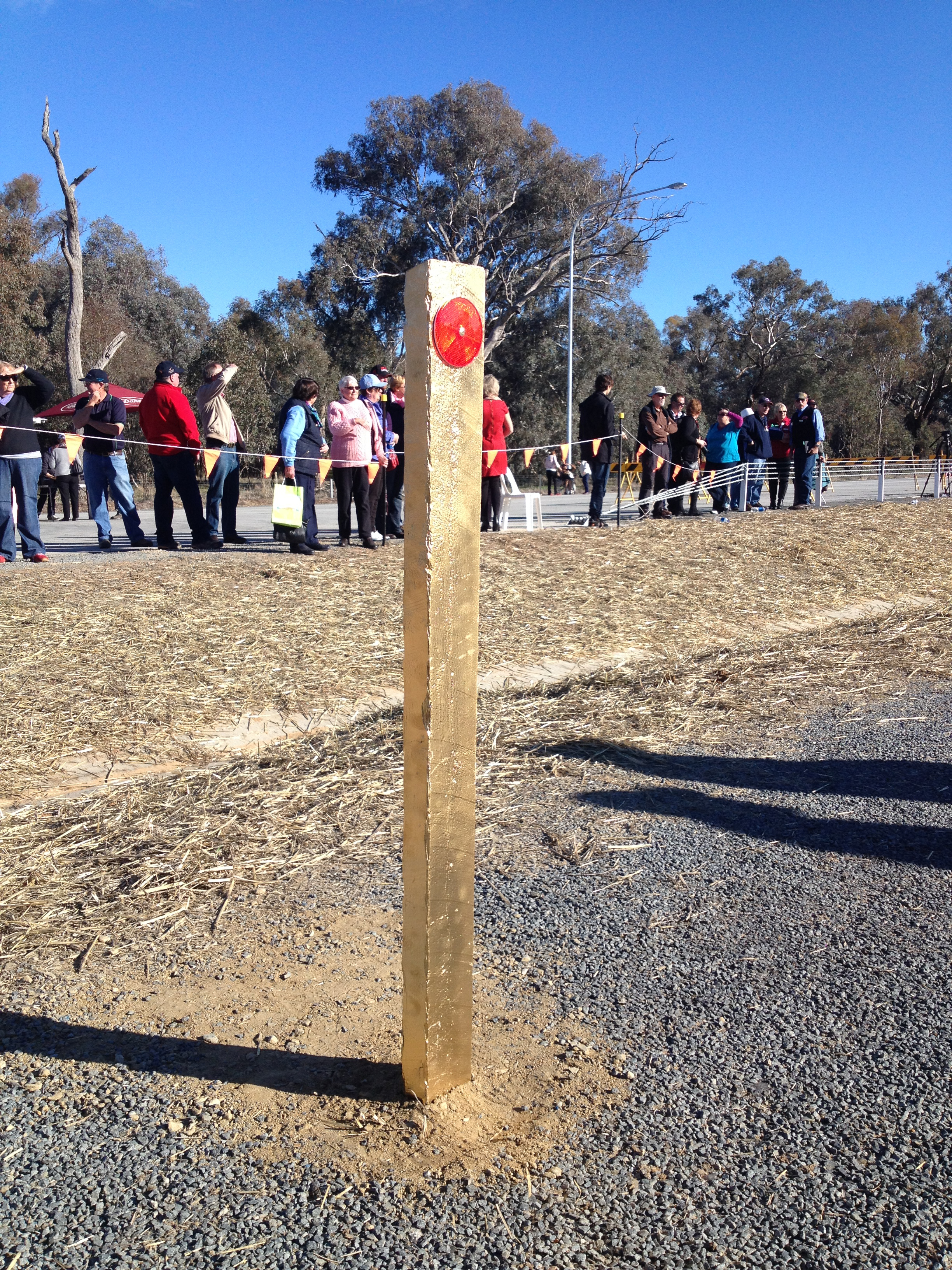 The "Golden Guidepost" on the Holbrook Bypass section of the Hume Freeway, marking the completion of dual carriageway the entire distance between Melbourne and Sydney - at Holbrook, New South Wales